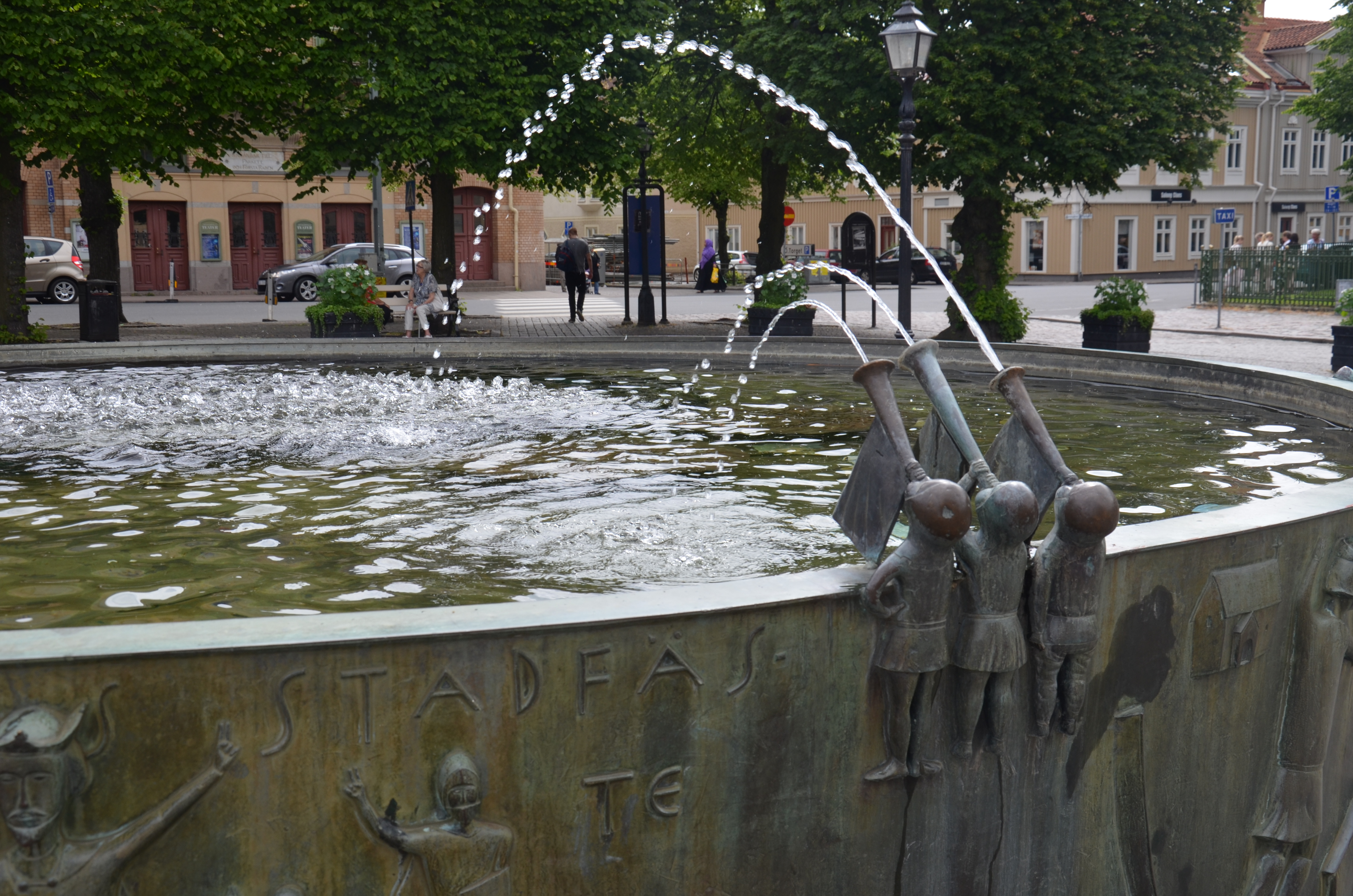 Sven Lundqvist: Birger Jarls fridslagar, brons, 1958, Hovrättstorget i Jönköping